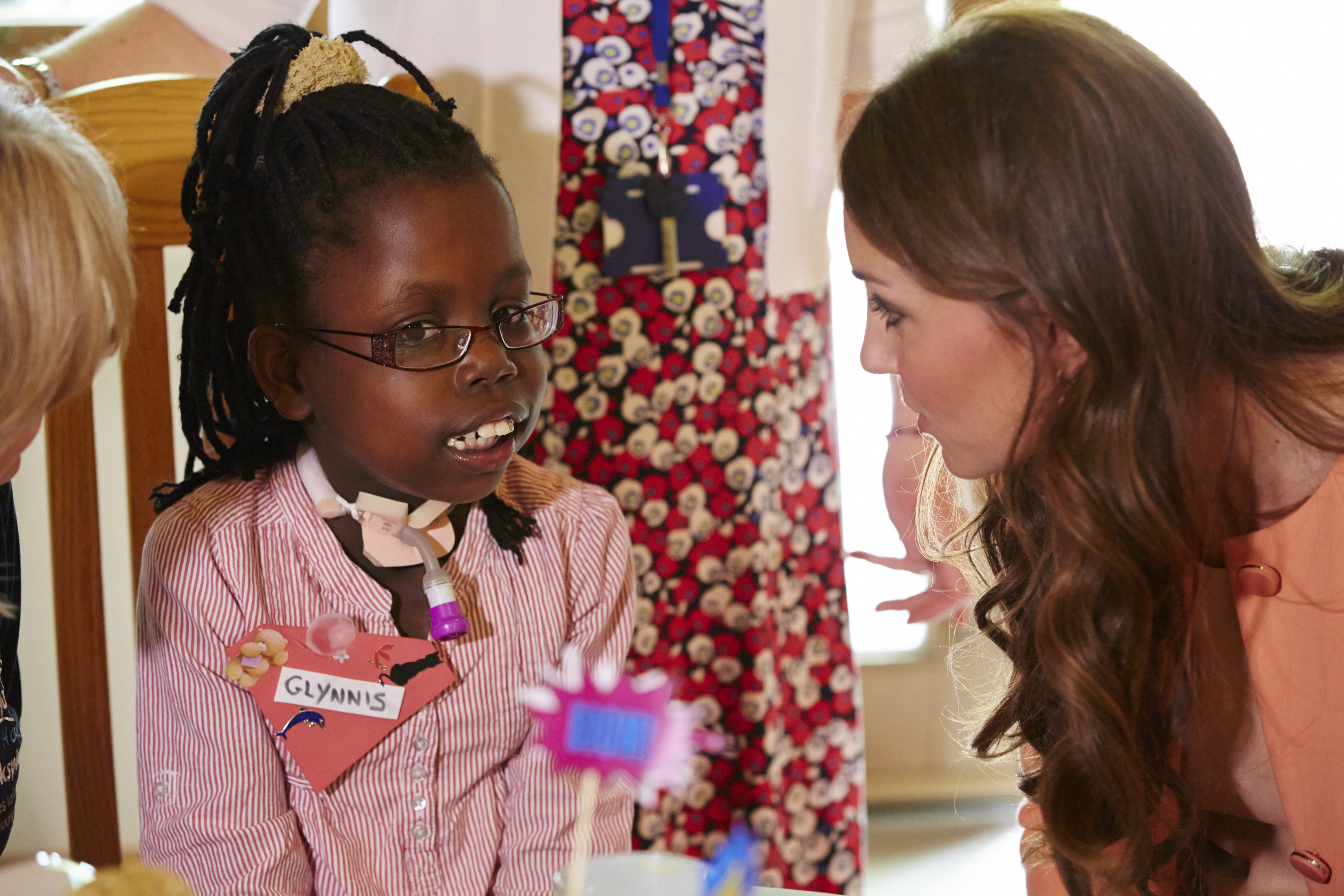 HRH Duchess of Cambridge meets a child at Naomi House & Jacksplace during an official visit.